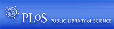 Logo of PLoS